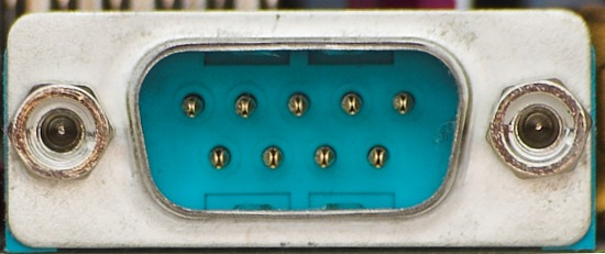 Serial Port of an ATX PC mainboard.